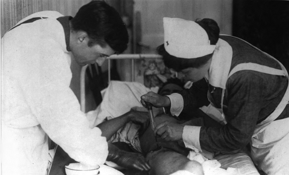 Caption: In 1919, Vichy, France, was a growing popular summer resort known as "little Paris" Pictured here is the surgical war in Base Hospital No. 1. The photograph shows the ward surgeon irrigating a wound of the right inguinal region accompanied by a nurse